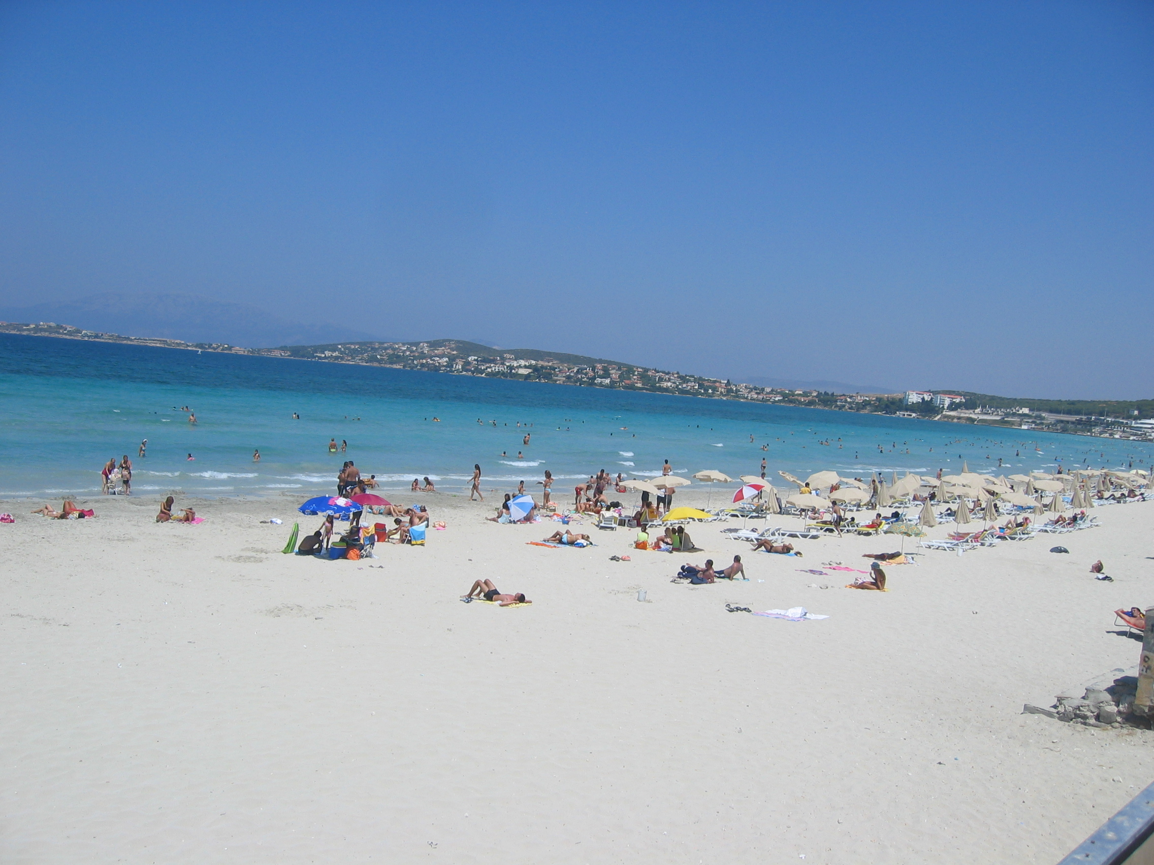 Cesme Ilica Plaji (beach)